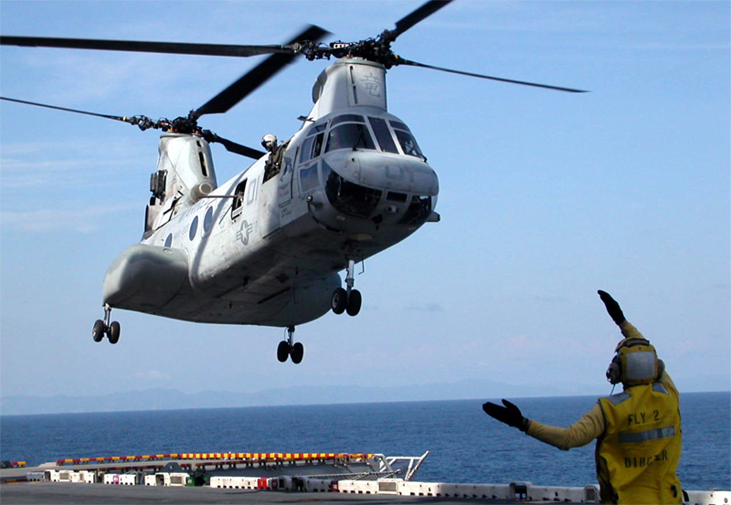 While attached to the 31st Marine Expeditionary Unit, Dragon-01, a CH46-E of Marine Medium Helicopter Squadron-265 (REIN), is safely guided by a member of the aircrew to land on the USS Essex (LHD-2) after a flight operation.